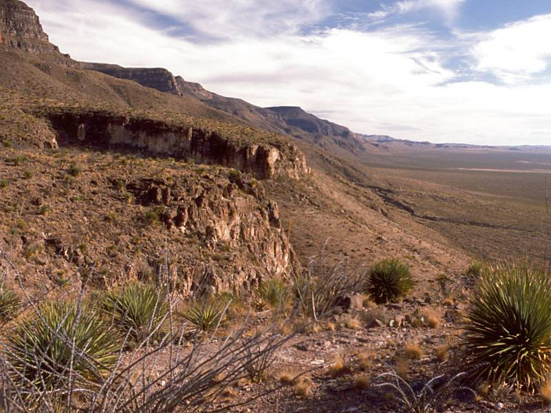 The western escarpment of the Sacramento Mountains of southern New Mexico, looking south from Dog Canyon above Oliver Lee State Park.